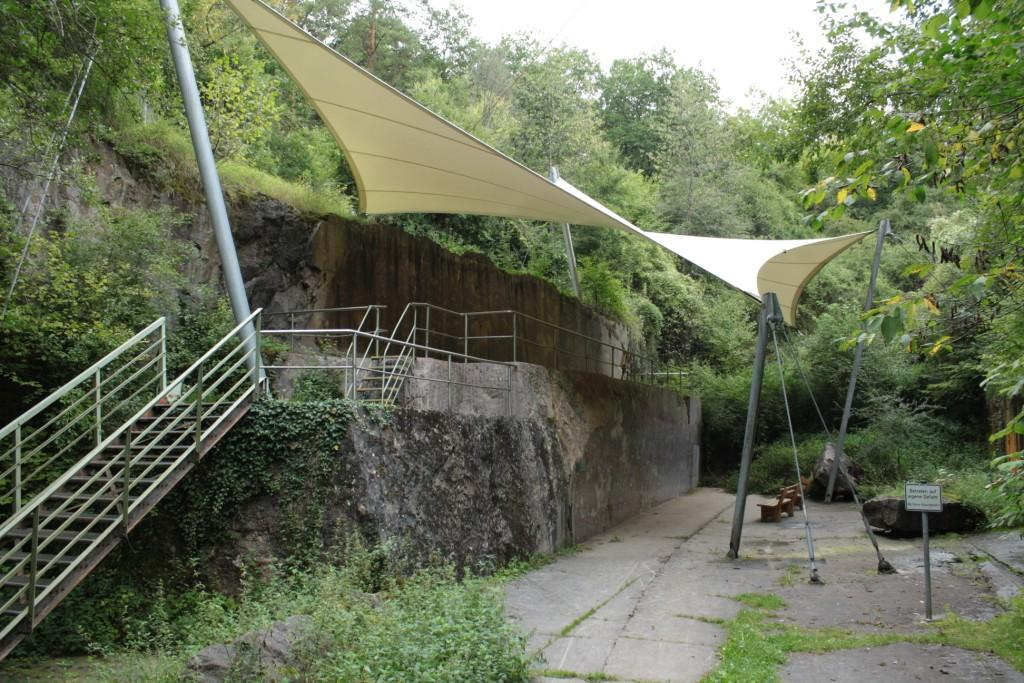 Limestone quarry “Unica”, town of Villmar, Hesse, Germany. Here the so-called “River Lahn Marble” has been quarried.